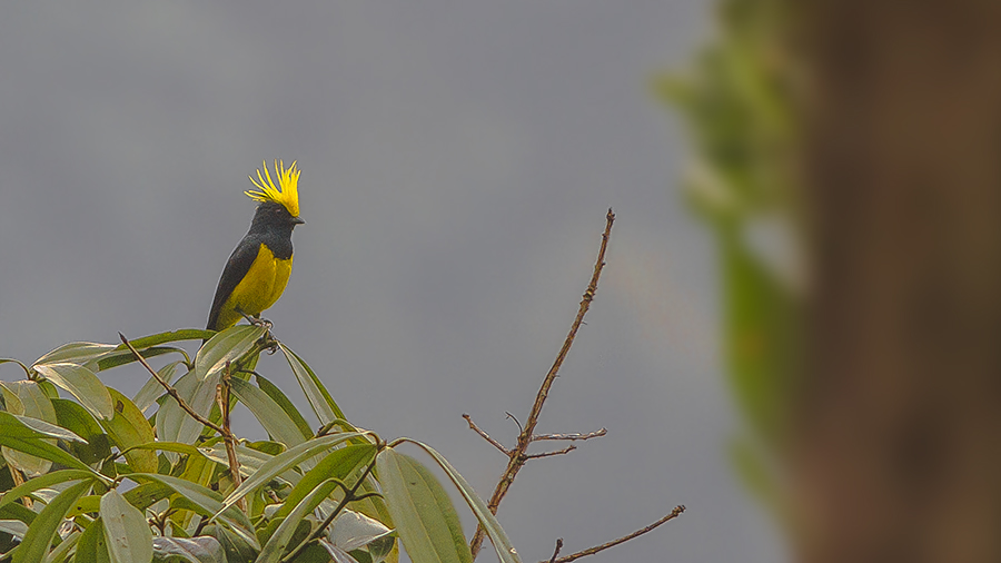 The species Sultan Tit has been photographed at Mahananda Wildlife Sanctuary, West Bengal, India on 05.12.2015 during GoingWild's birding trip.